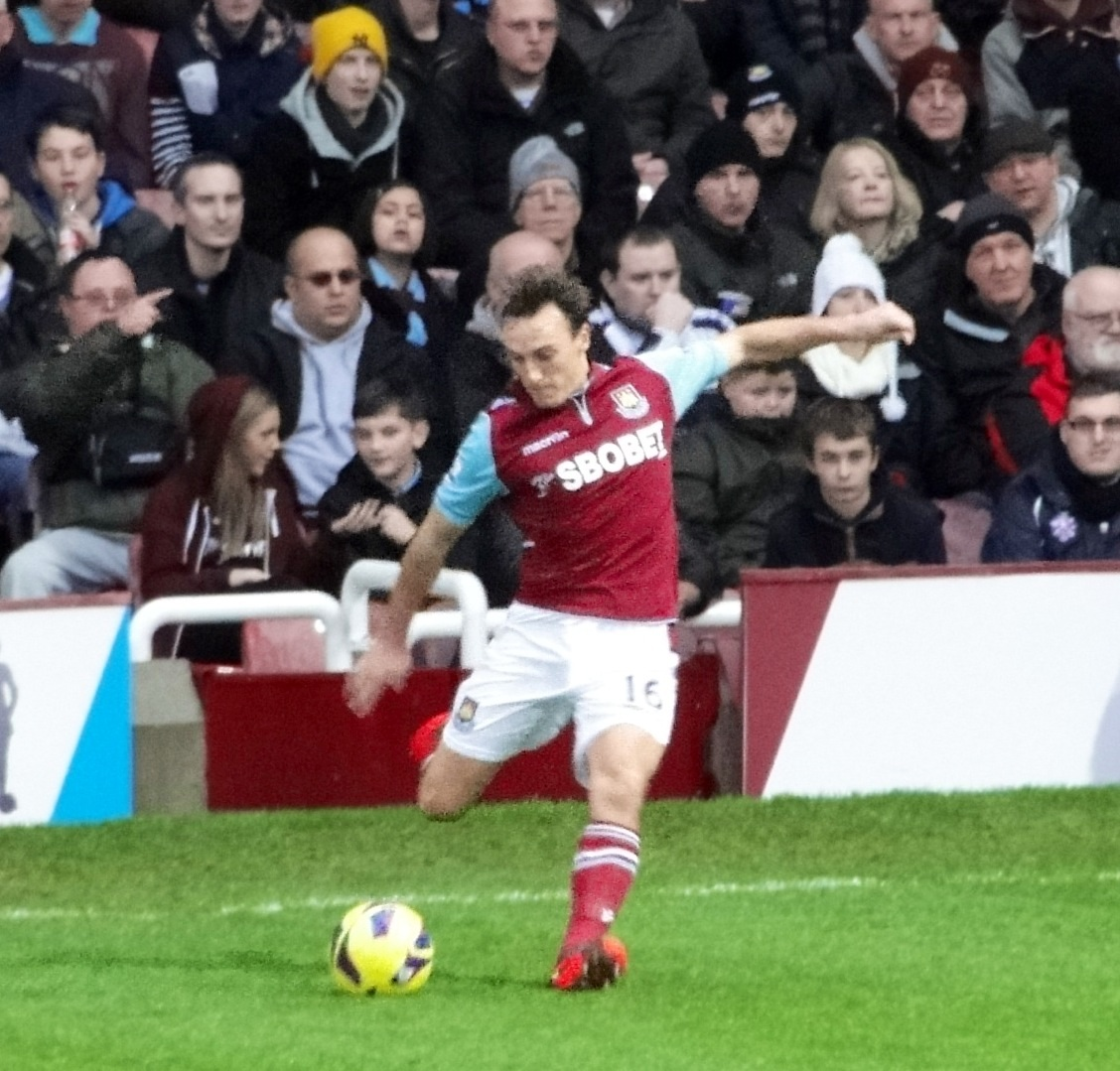 West Ham player, Mark Noble about to take a free kick at The Boleyn Ground, London